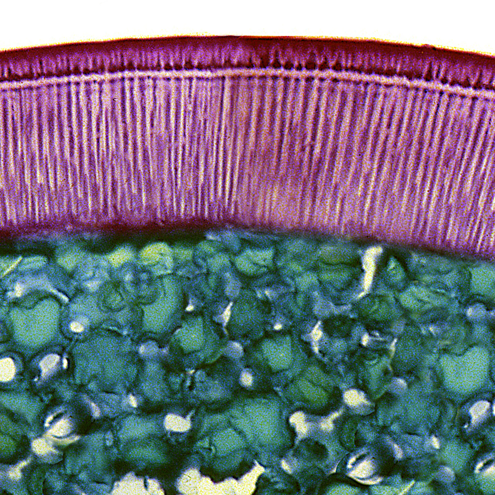 Macrosclereids of legume seedcoat